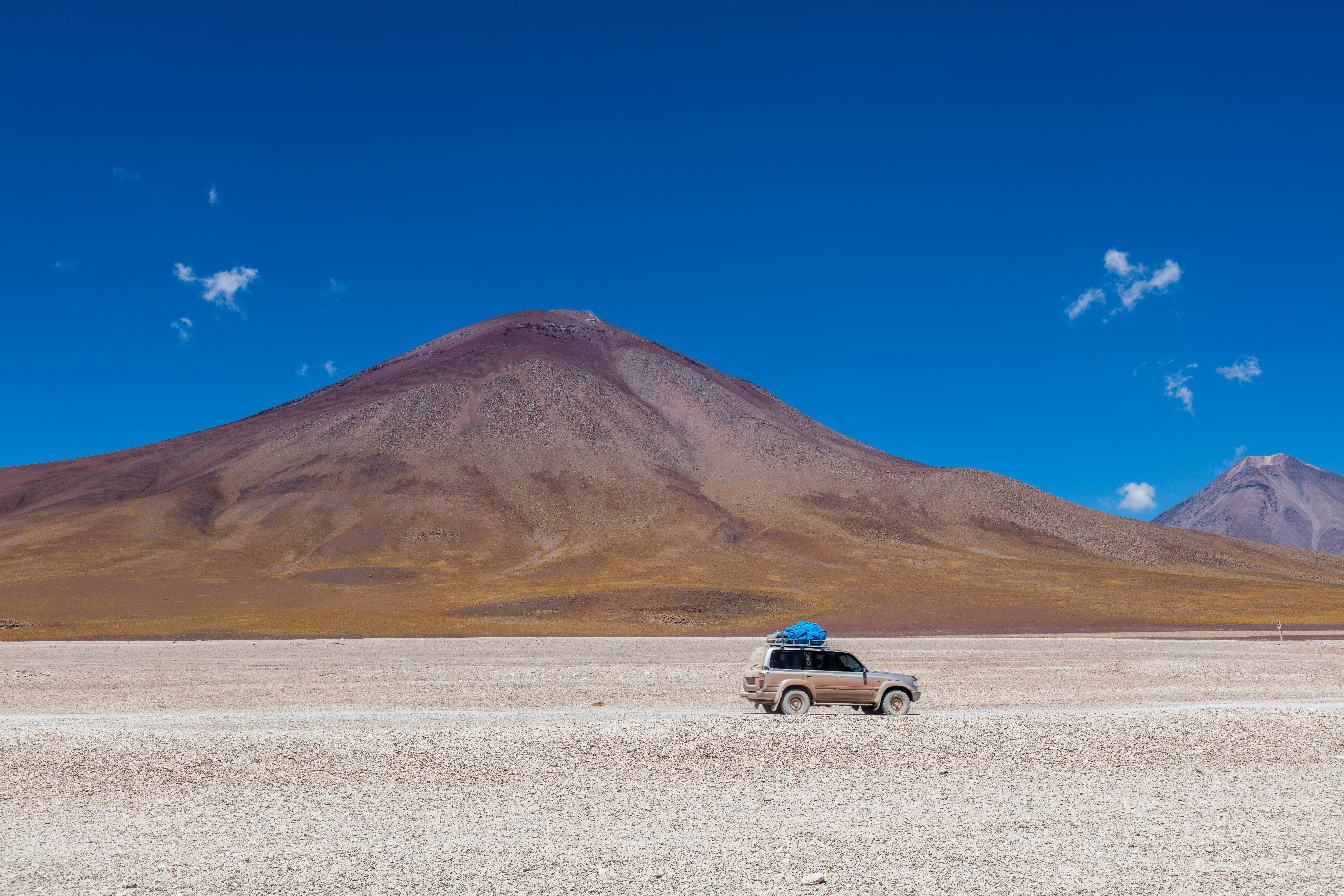 Licancabur volcano, Bolivia